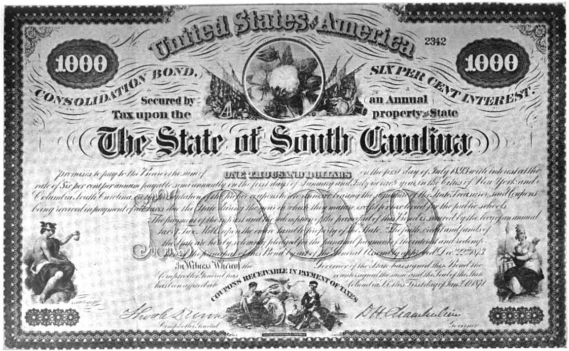 Image of a bond certificate issued via the South Carolina Consolidation Act of 1873.